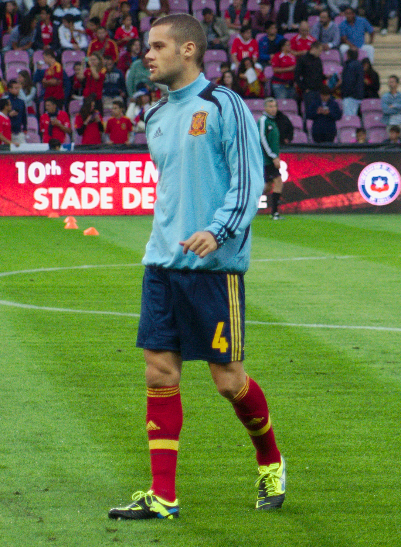 Spain - Chile - 10-09-2013 - Geneva - Mario Suarez → This file has been extracted from another image: File:Spain - Chile - 10-09-2013 - Geneva - Mario Suarez.jpg.